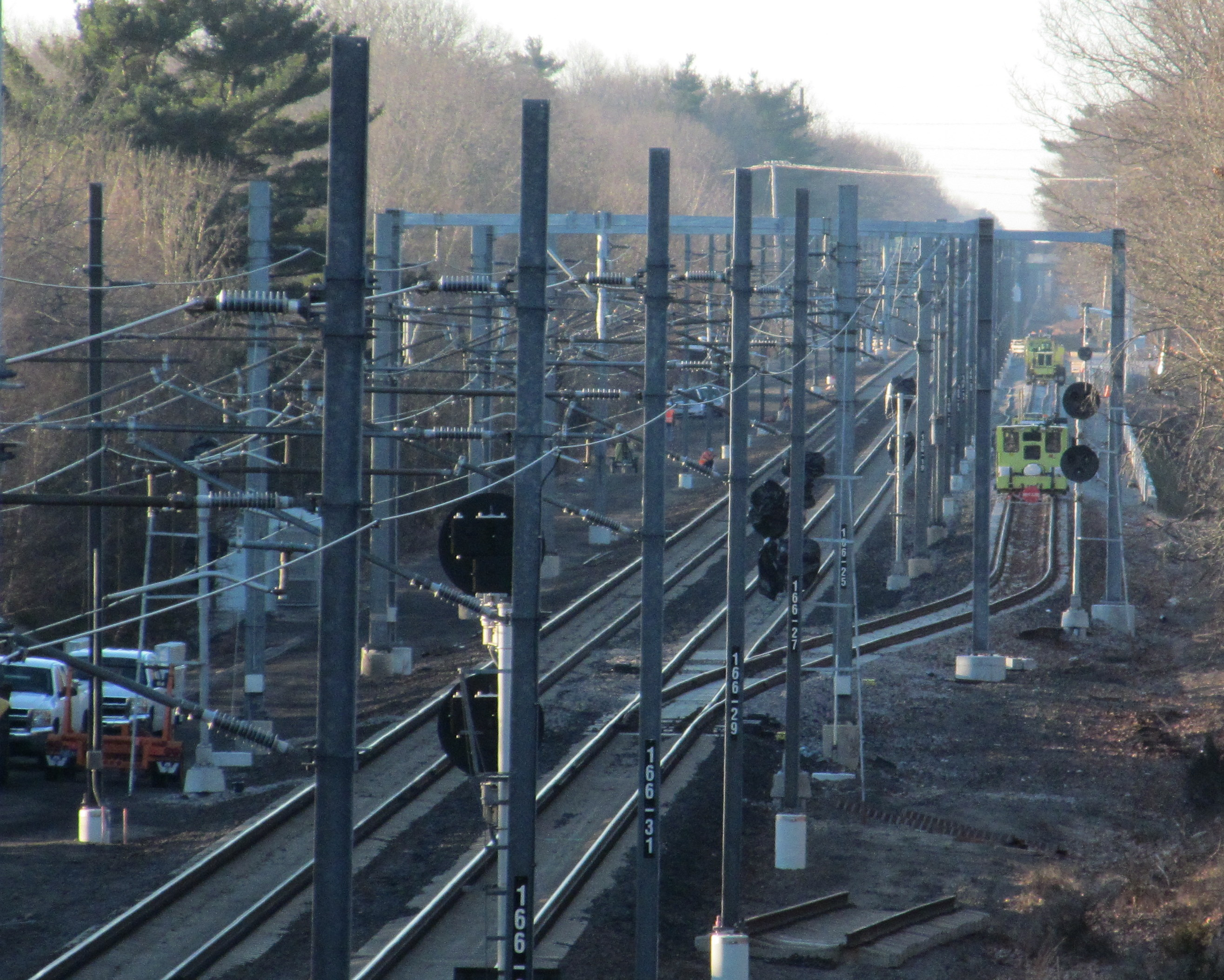 Siding under construction at Wickford Junction station in January 2012. This picture was taken from the Stony Lane bridge about 0.8 miles (1.2 km) north of the station itself.